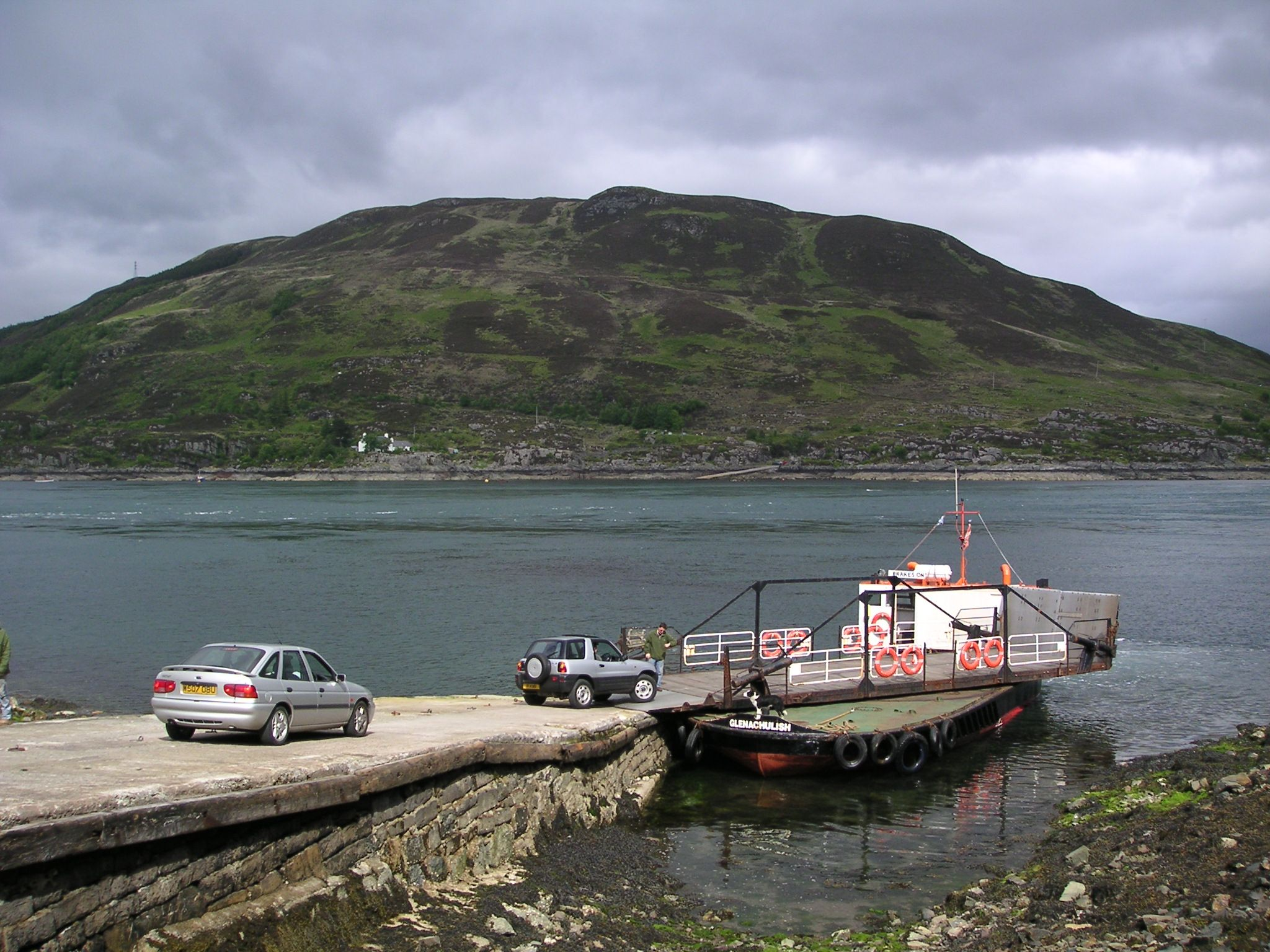 Ferry from Glenelg, Highland to Kylerhea on Skye, Scotland